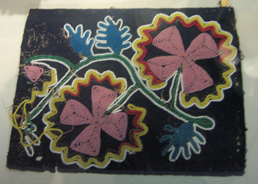 Cherokee beadwork sampler said to be sewn by students of the Cherokee Female Seminary, Park Hill, Oklahoma, ca. 1840s. Collection of the Oklahoma History Center.